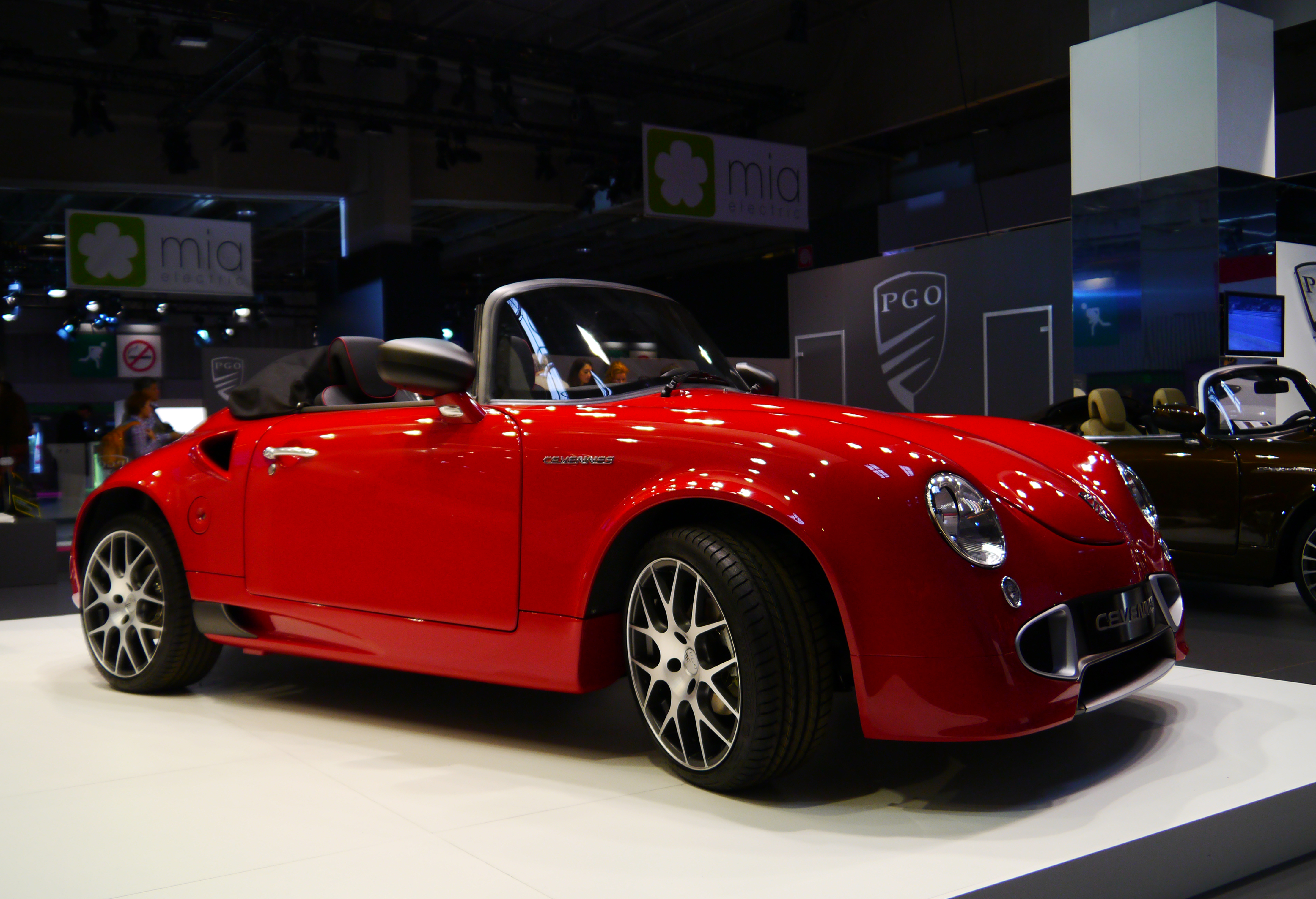 P.G.O. Cévennes. PGO Automobiles is a small French car manufacturer producing sports cars. They began by manufacturing replicas, but moved on to produce their own cars.